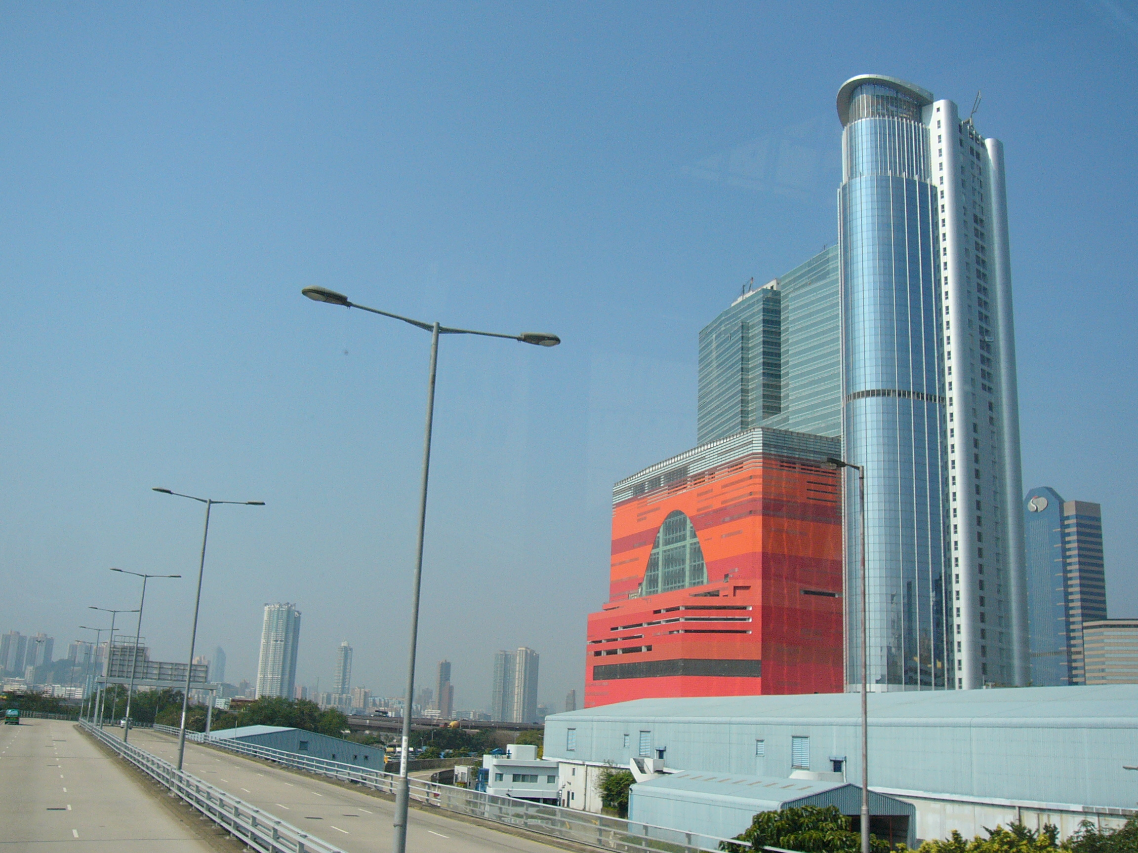 Kowloon Bay near Skyline Tower